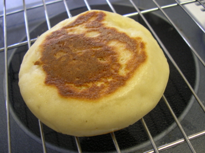 An English muffin cooling on a rack.